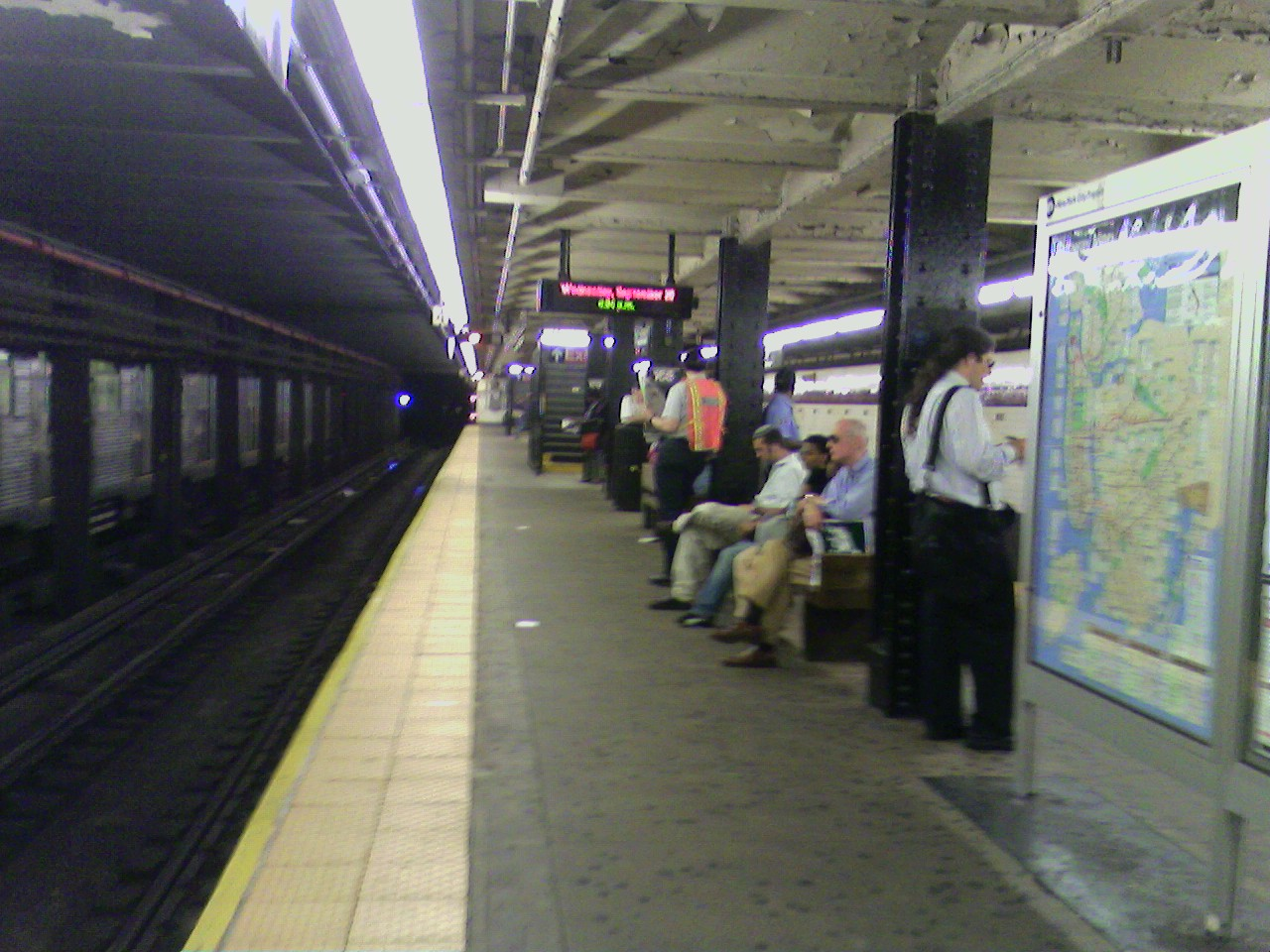 The Washington Heights-168th Street subway station.